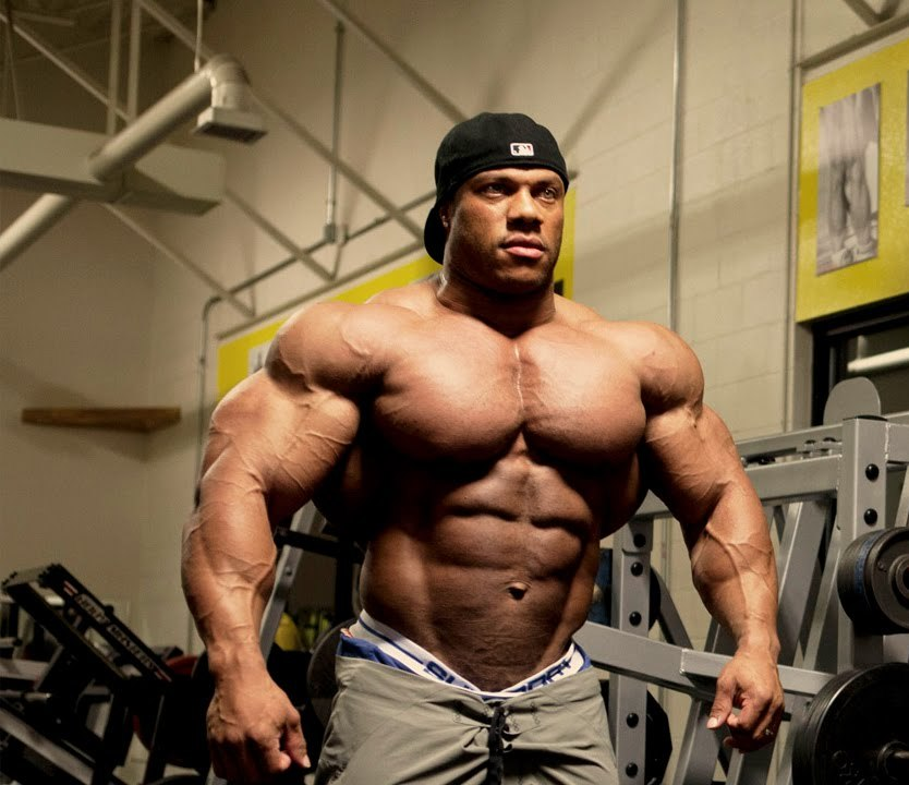 phil heath mr olympia 2011.2012.2013.2014.2015